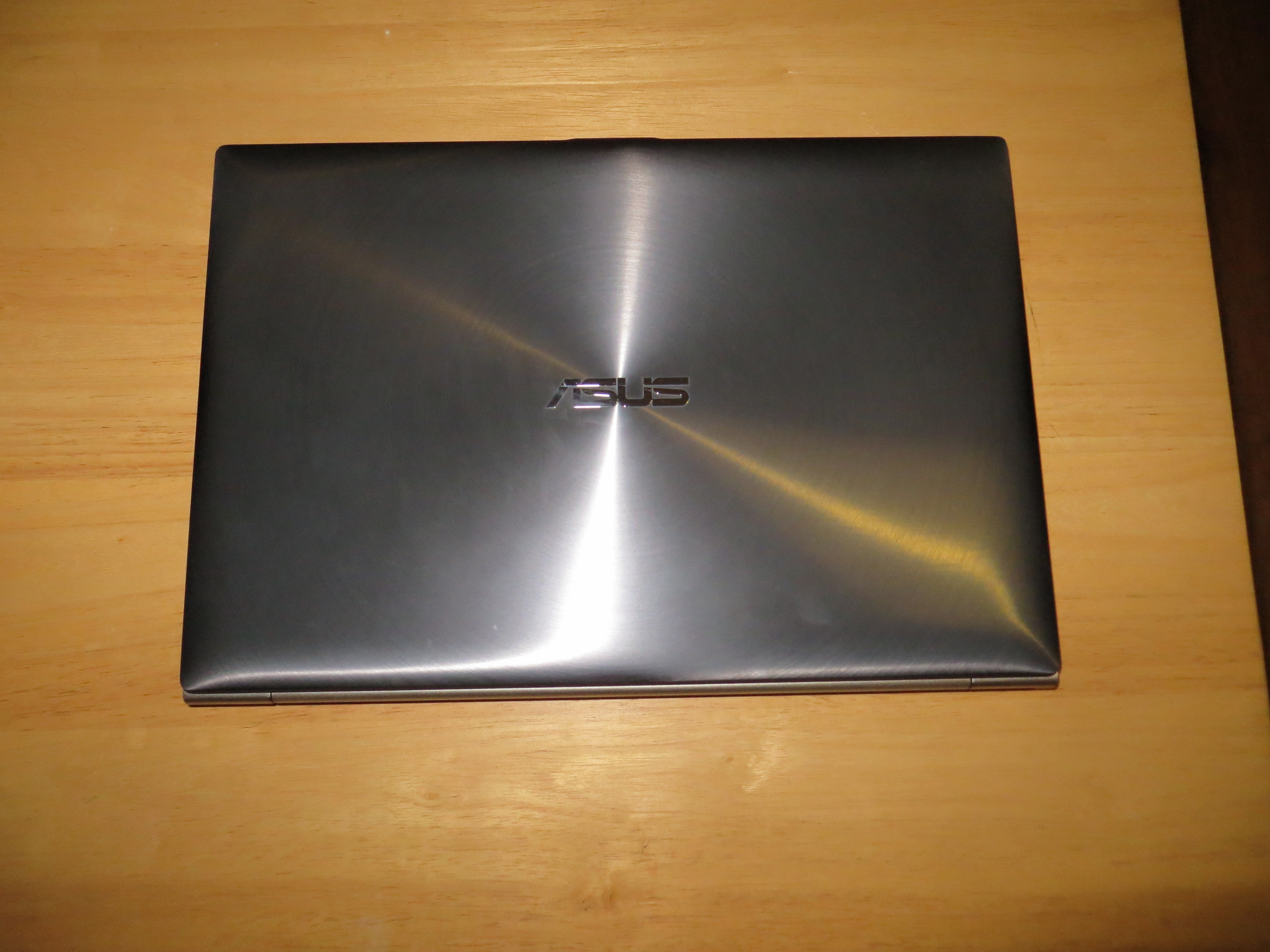 A photo I took of an Asus Zenbook UX31A to illustrate the concentric circles on the lid.